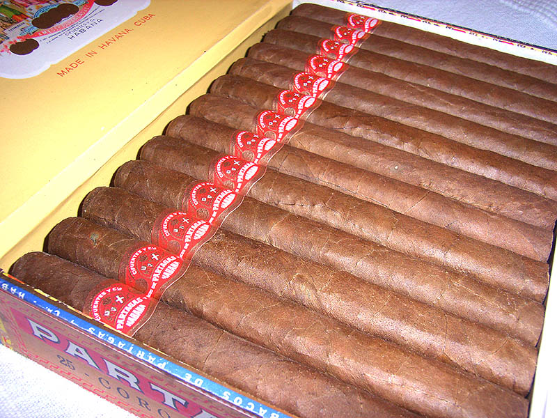 Box of Partagas Coronas